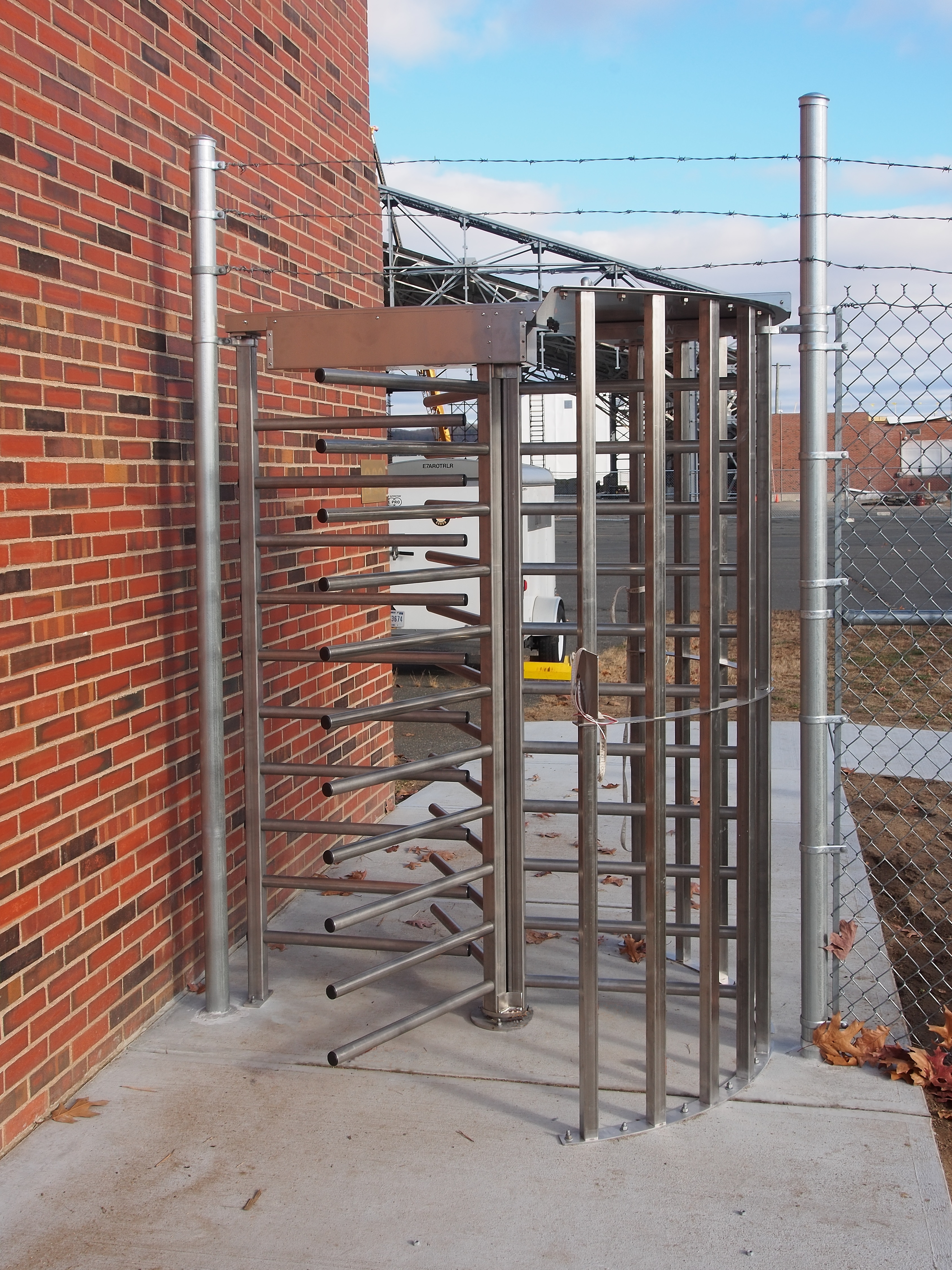 A Full Height Type B Series Roto-Gate manufactured by Q-Lane Turnstiles LLC